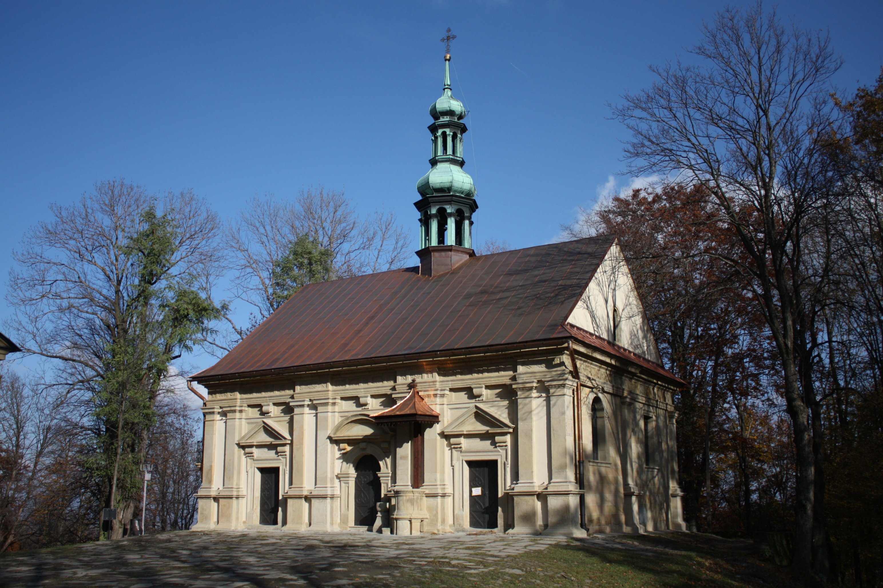 Kalwaria Zebrzydowska, Pathways of Passion of Christ, Chapel of Crucifixion